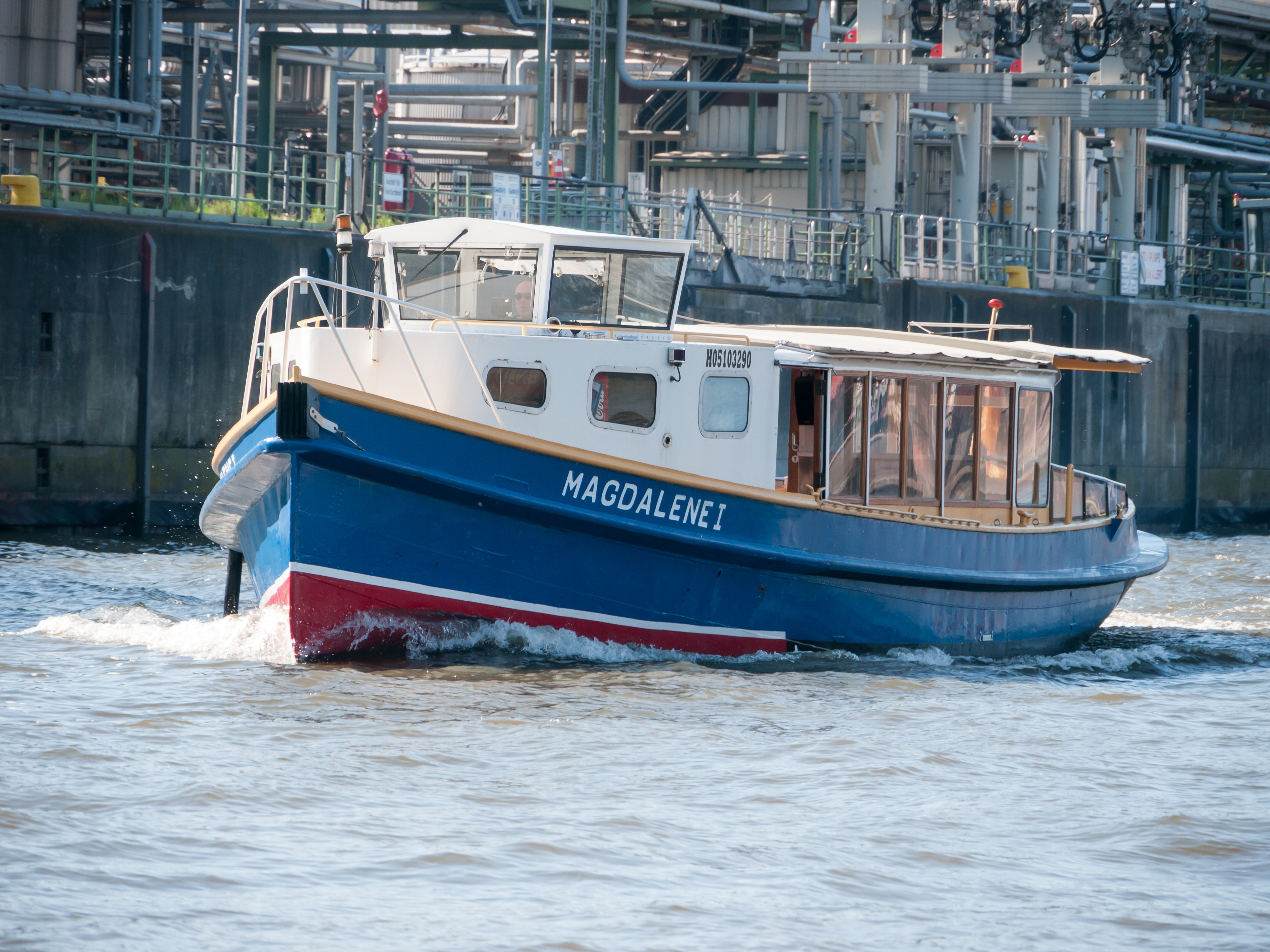 Wikipedia Ahoi in Hamburg 2019